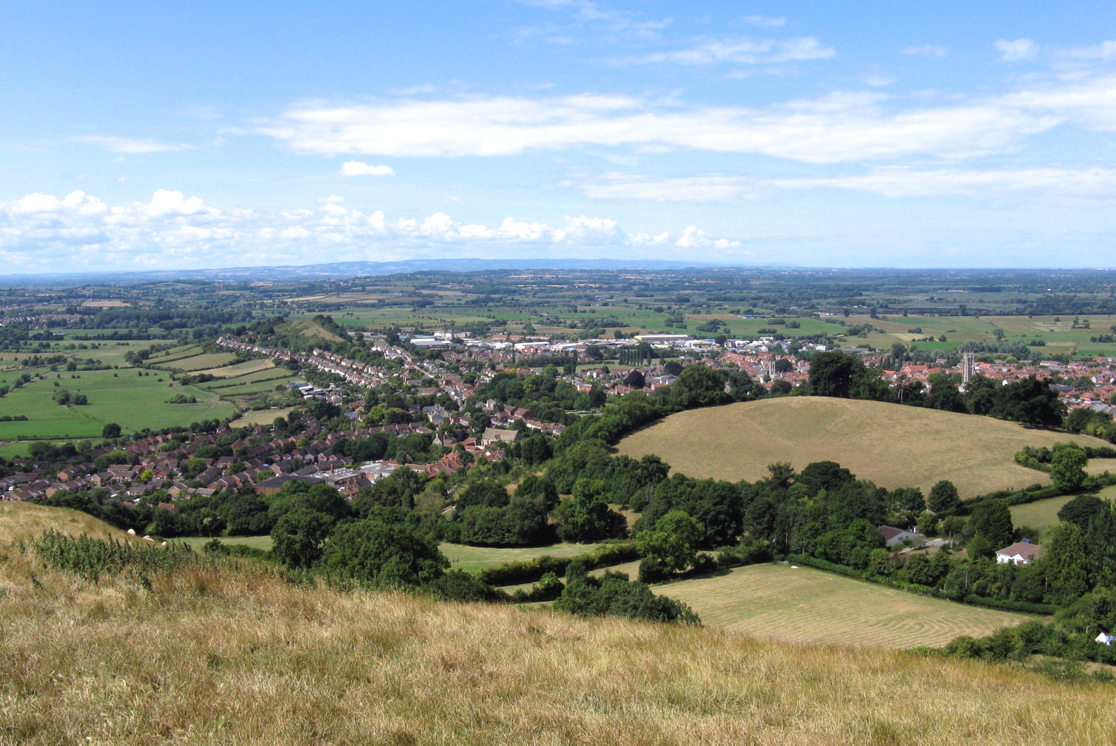 The western half of the town of Glastonbury, looking west from the top of Glastonbury Tor. The tall church tower on the right is the parish church of St John the Baptist in the town’s main street.